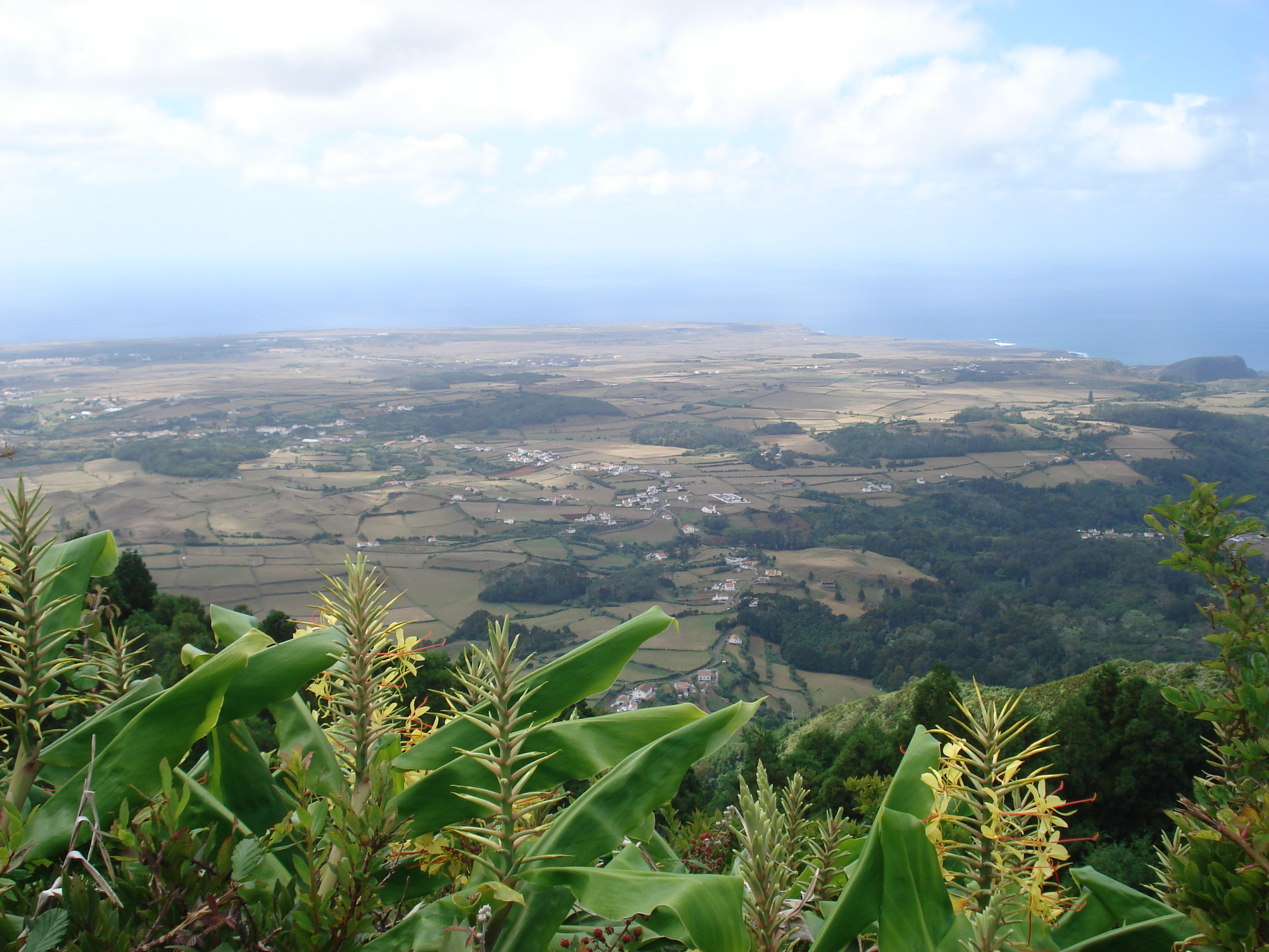 The parish of Vila do Porto, looking from Pico Alto to the Anjos (along the northwest coast), Santa Maria Island, Azores